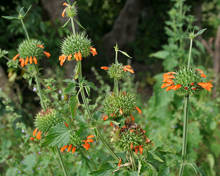 Klip Dagga or Lion's ear Leonotis nepetifolia in Narsapur, Andhra Pradesh, India.